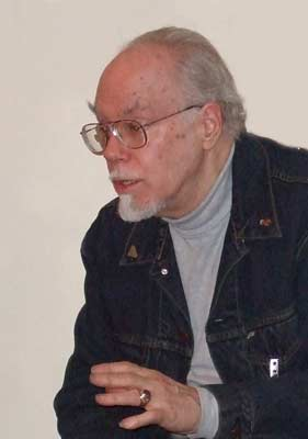 Photo by Bill Burns, Corflu, Austin, Texas, 2007.